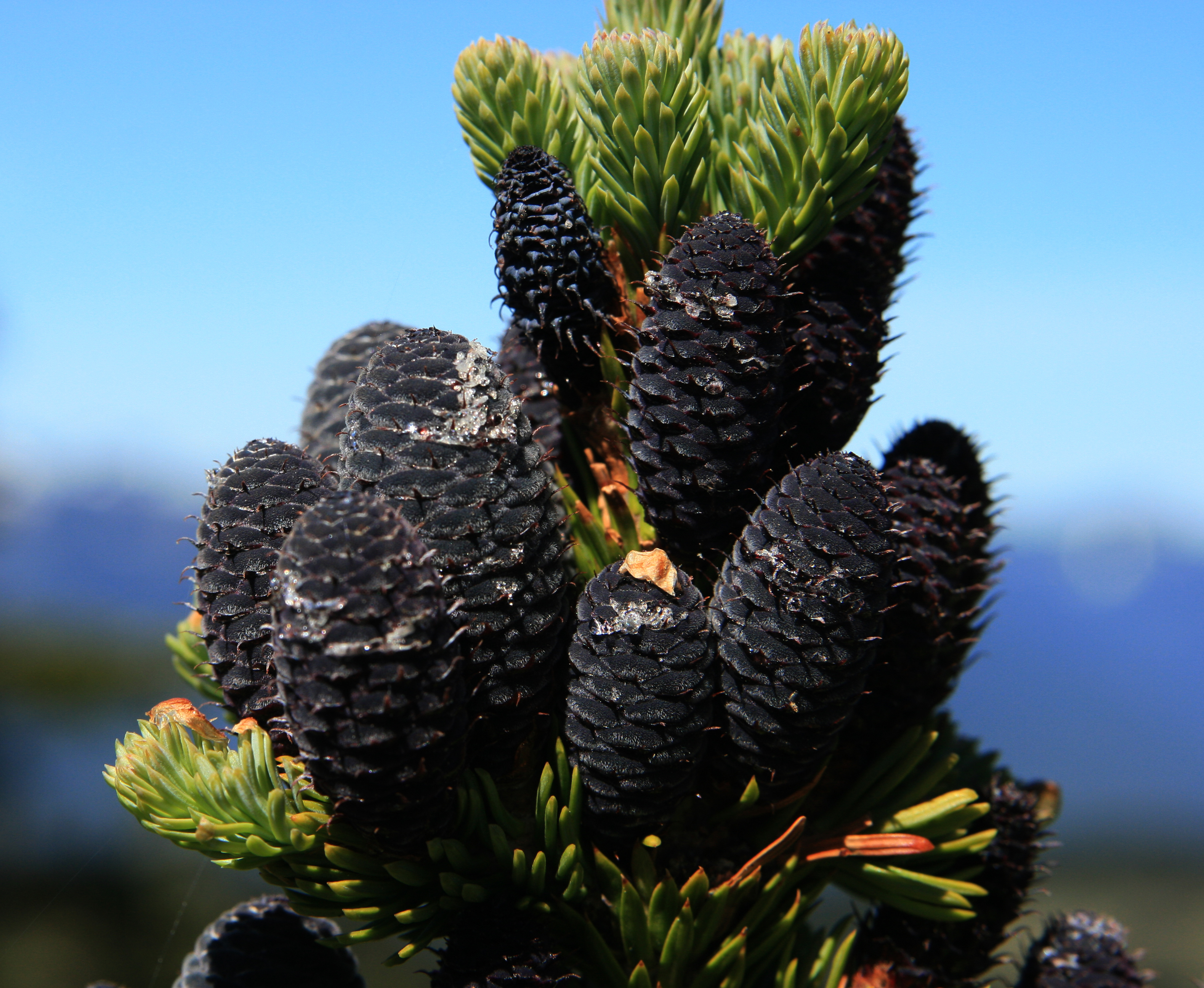 Abies lasiocarpa young cones. Hurricane Point, Olympic National Park, Washington State.